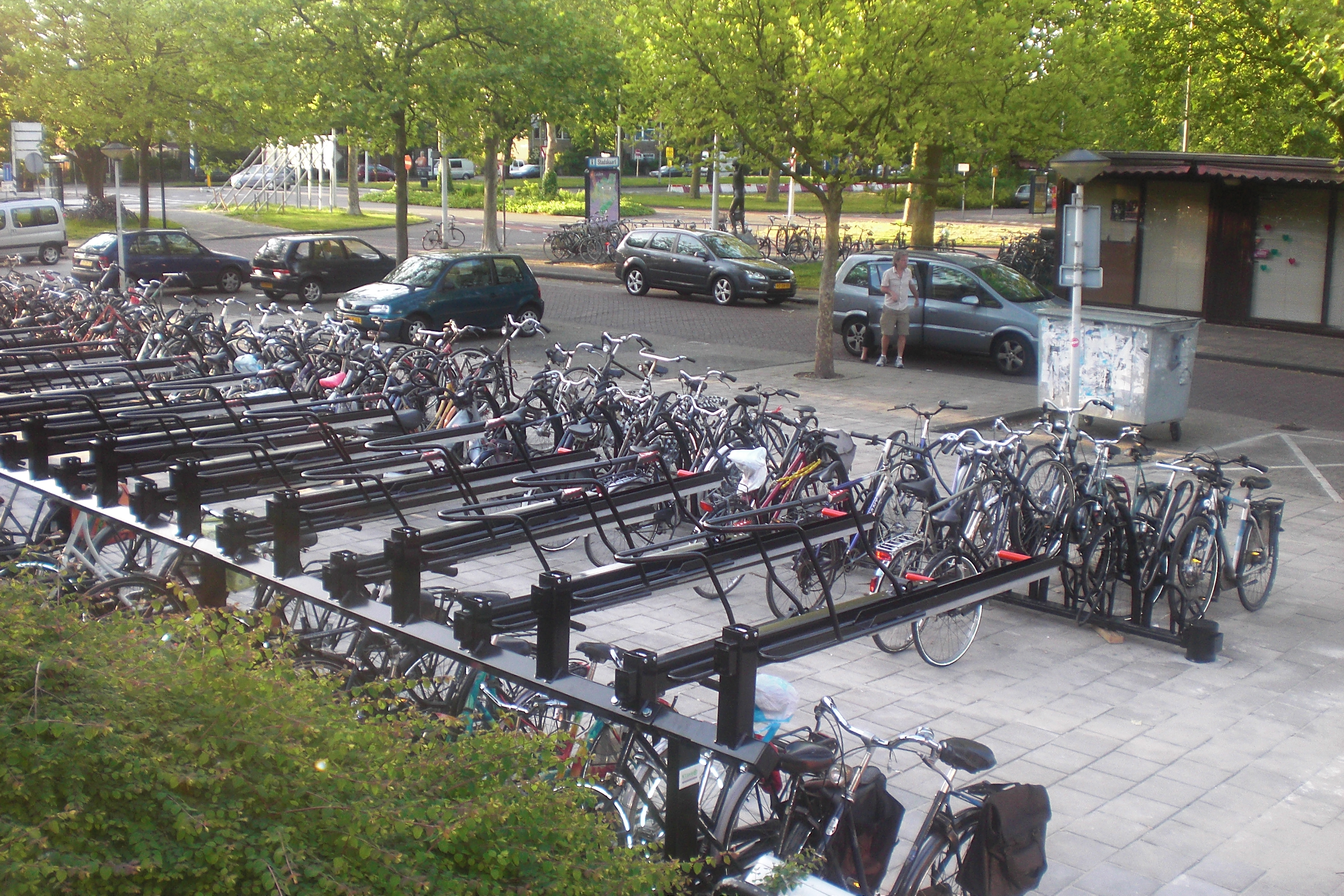 New bicycle shed railway station Leiden Lammenschans.